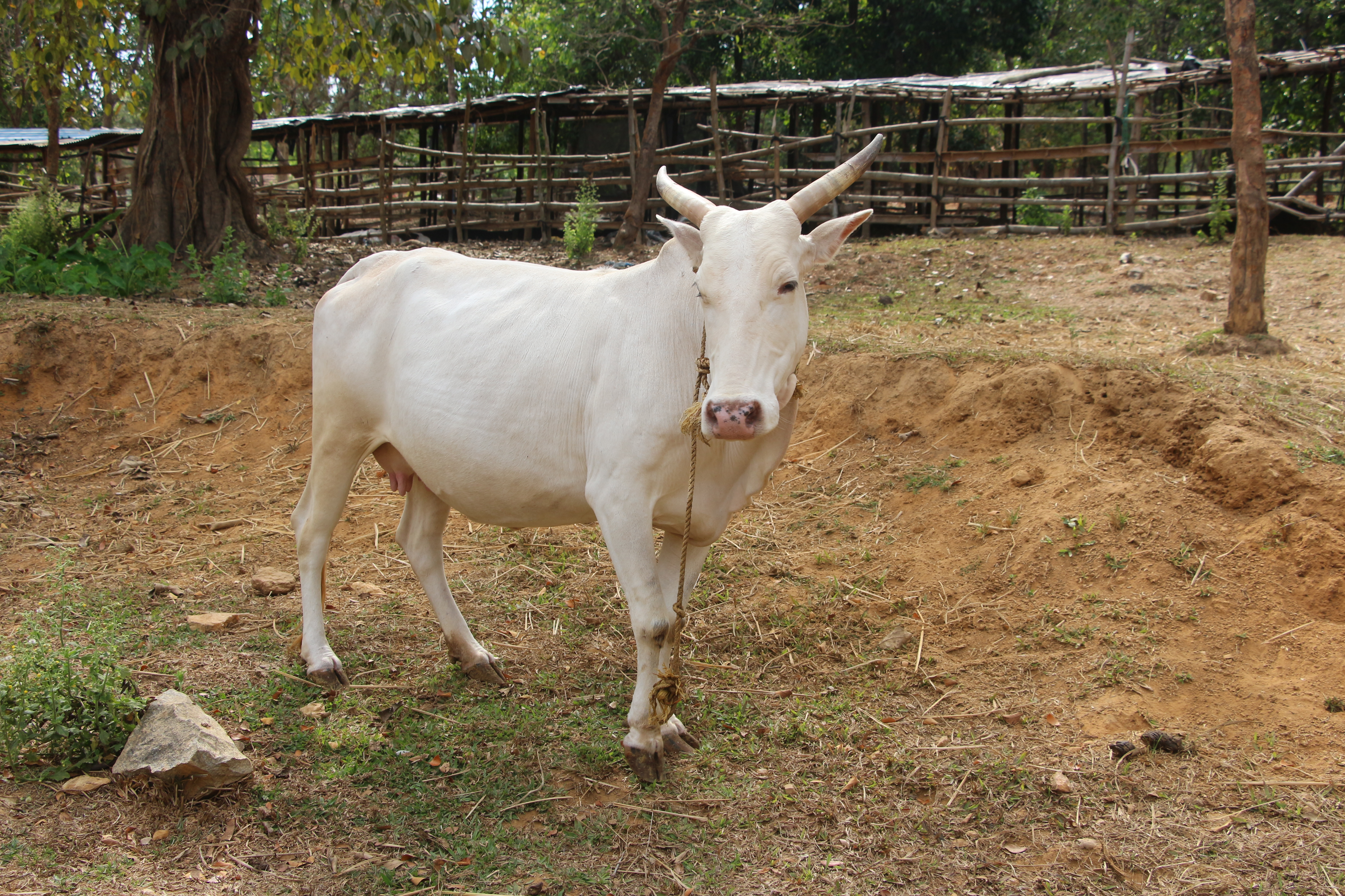 Indian cow breed Javari ಕನ್ನಡ: ಭಾರತೀಯ ಗೋತಳಿ ಜವಾರಿ